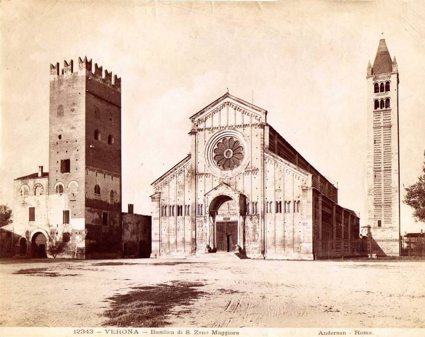 Fotografia Anderson, Rome - "Verona - San Zeno Maggiore Basilica". Catalogue # 12343. Circa 1860. 1890s. 2008.